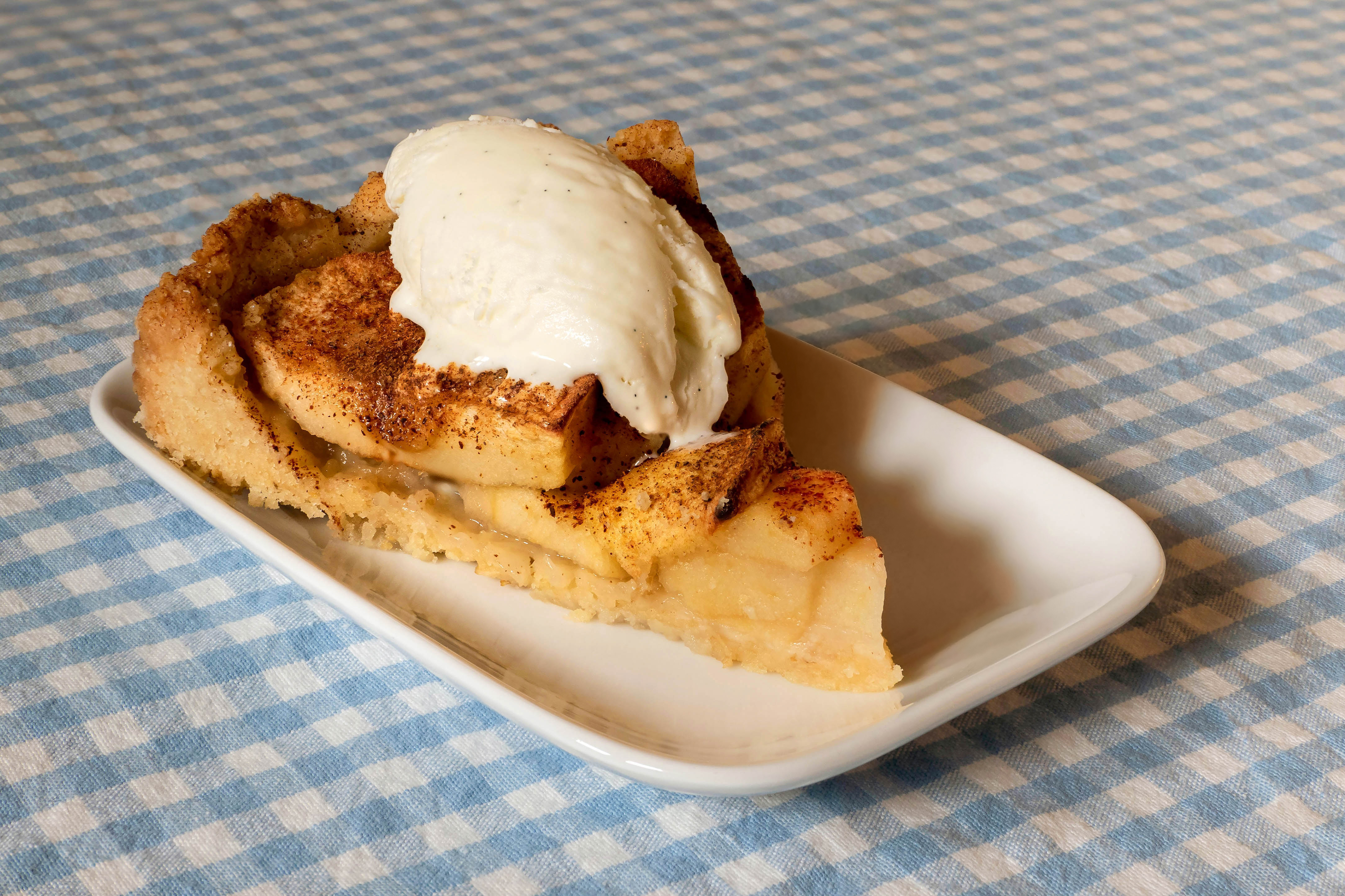 Simple and easy apple cake served with vanilla ice cream, on a checkered tablecloth in Lysekil, Sweden. Image focus stacked from five photos using Photoshop. Recipe: Ingredients: 150 g butter, 1 dl sugar, 3 dl all-purpose flour, 1 dl rolled oats, 3 large apples Directions: Mix sugar, flour and oats in a bowl. Cut the butter into smaller cubes and add to the mix. Work the butter into the dry ingredients using pinching and kneading motions, until the butter is evenly mixed in. The result should not be a smooth dough, but rather small lumps. Pour the lumps into a pan; a regular medium springform pan will do nicely. Work the lumpy dough so that it covers the bottom of the pan and a couple of cm up against the sides. Peel and slice the apples, and put them in the pan. Sprinkle with some sugar and cinnamon. Bake in the middle of oven at 225 °C for about 25-30 minutes. Allow to cool a bit before serving with vanilla ice cream.